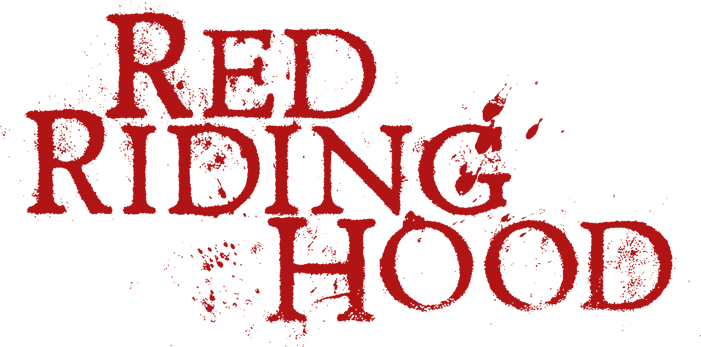 Red riding hood film logo 2011